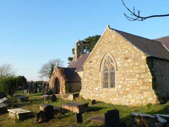 St. Beuno's Church, Trefdraeth. A view of the C13 Church of St. Beuno at Trefdraeth.